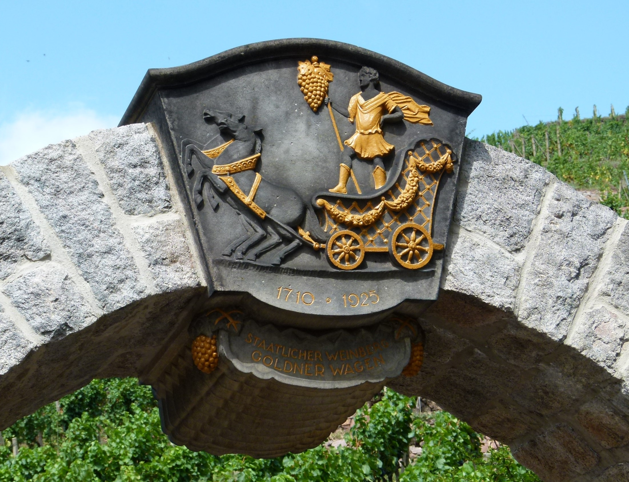 Denkmalgeschützter Torbogen, Am Goldenen Wagen, Radebeul